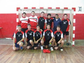 tomas nestor blanco handball